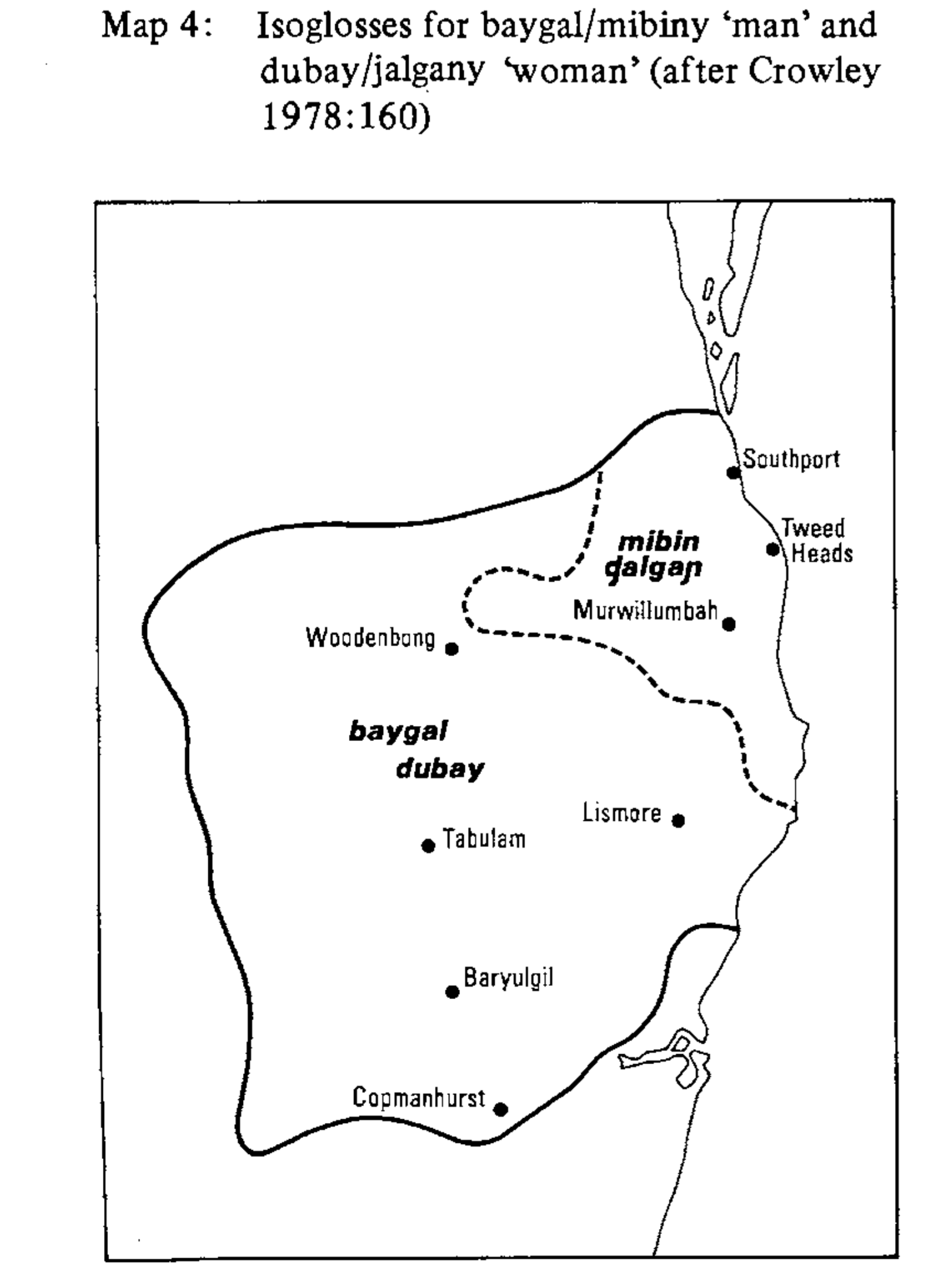 Isogloss line for man and woman